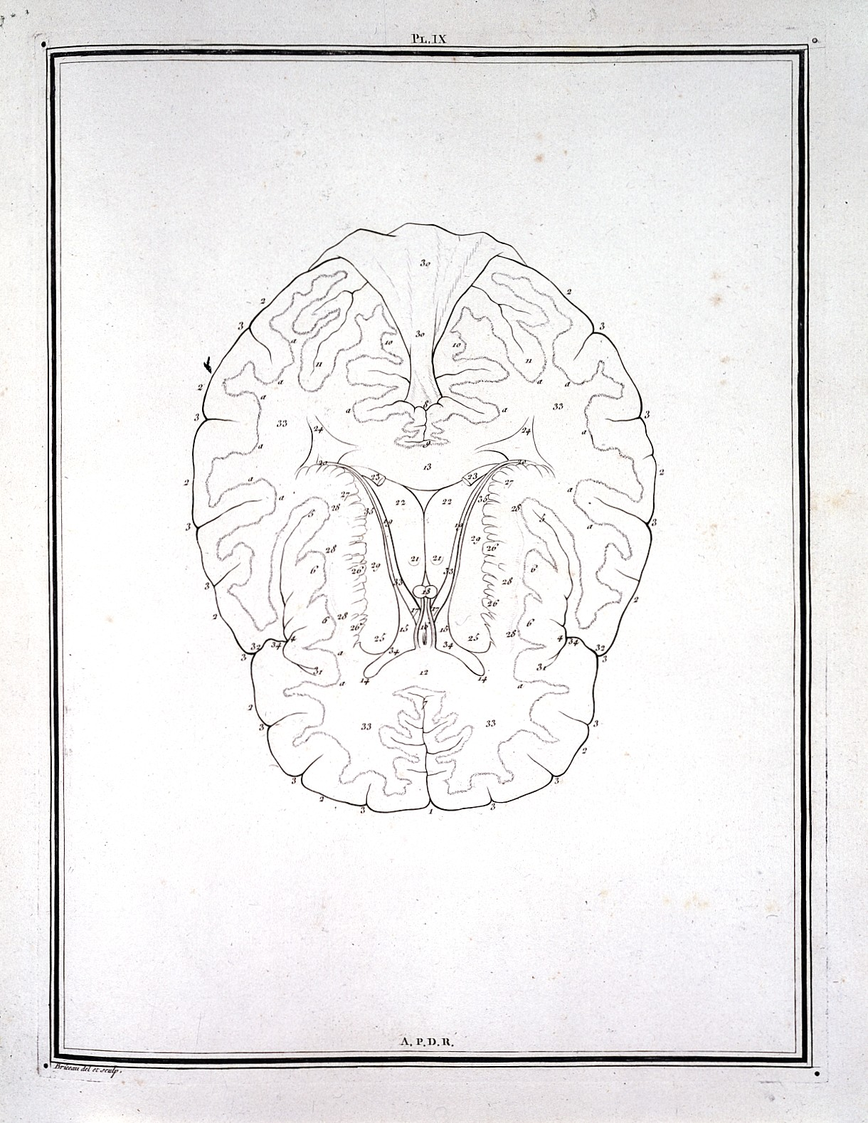 Brain Wellcome Images Keywords: Anatomy